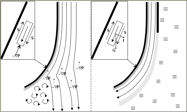 Coandă effect : Comparison of 2 flows following a convex surface - left: flow without a jet, separating soon due to the pressure gradient, right: a jet following the surface better as no adverse pressure gradient is present.